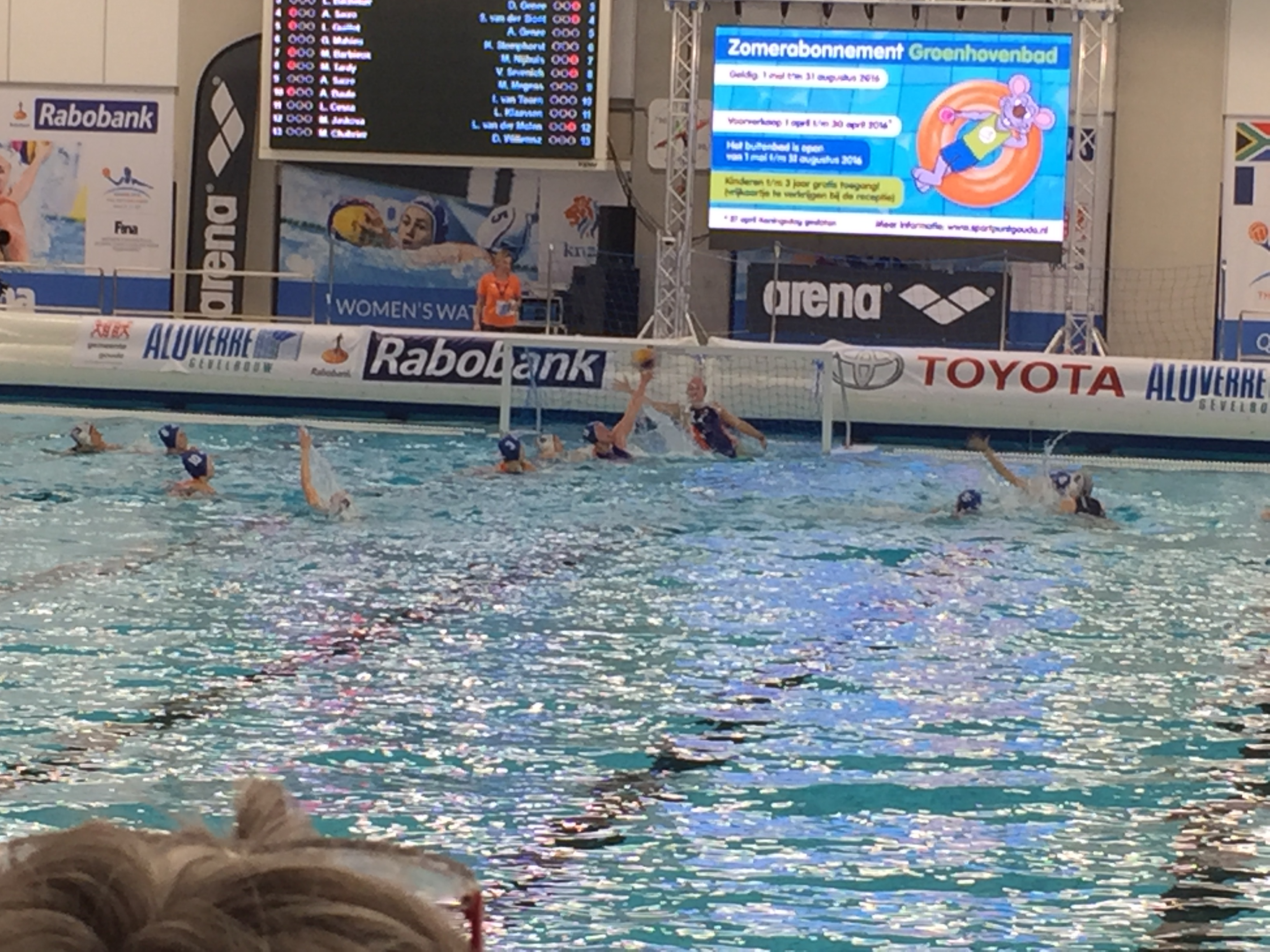 2016 Water Polo Olympic Qialification tournament NED-FRA